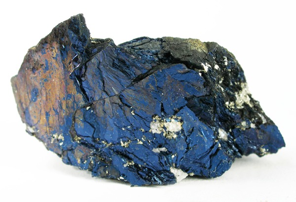 Covellite Locality: East Colusa Mine, Butte, Butte District, Silver Bow County, Montana, USA (Locality at ) Size: 4.4 x 1.8 x 1.8 cm. Striking iridescent peacock-blue and golden-bronze, intergrown covellite plates form a fine old-time specimen from the East Colusa Mine at Butte. A highly representative example of the species and renowned locale.